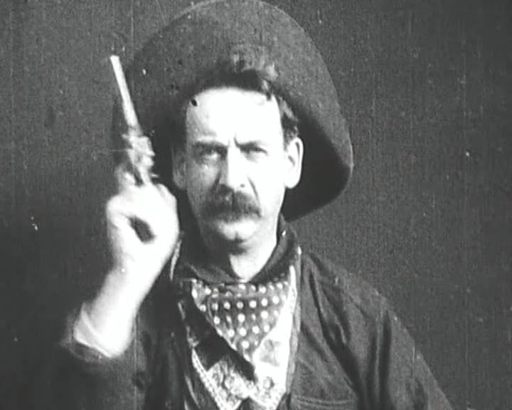 Screenshot from The Great Train Robbery (1903)